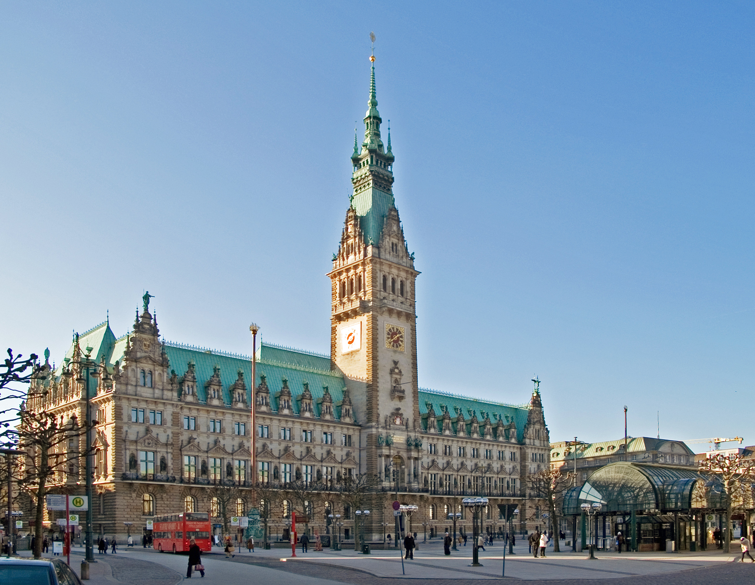 Hamburg city hall, Germany This is a photograph of an architectural monument. , 12254 For similar images, see Hamburger Rathaus.